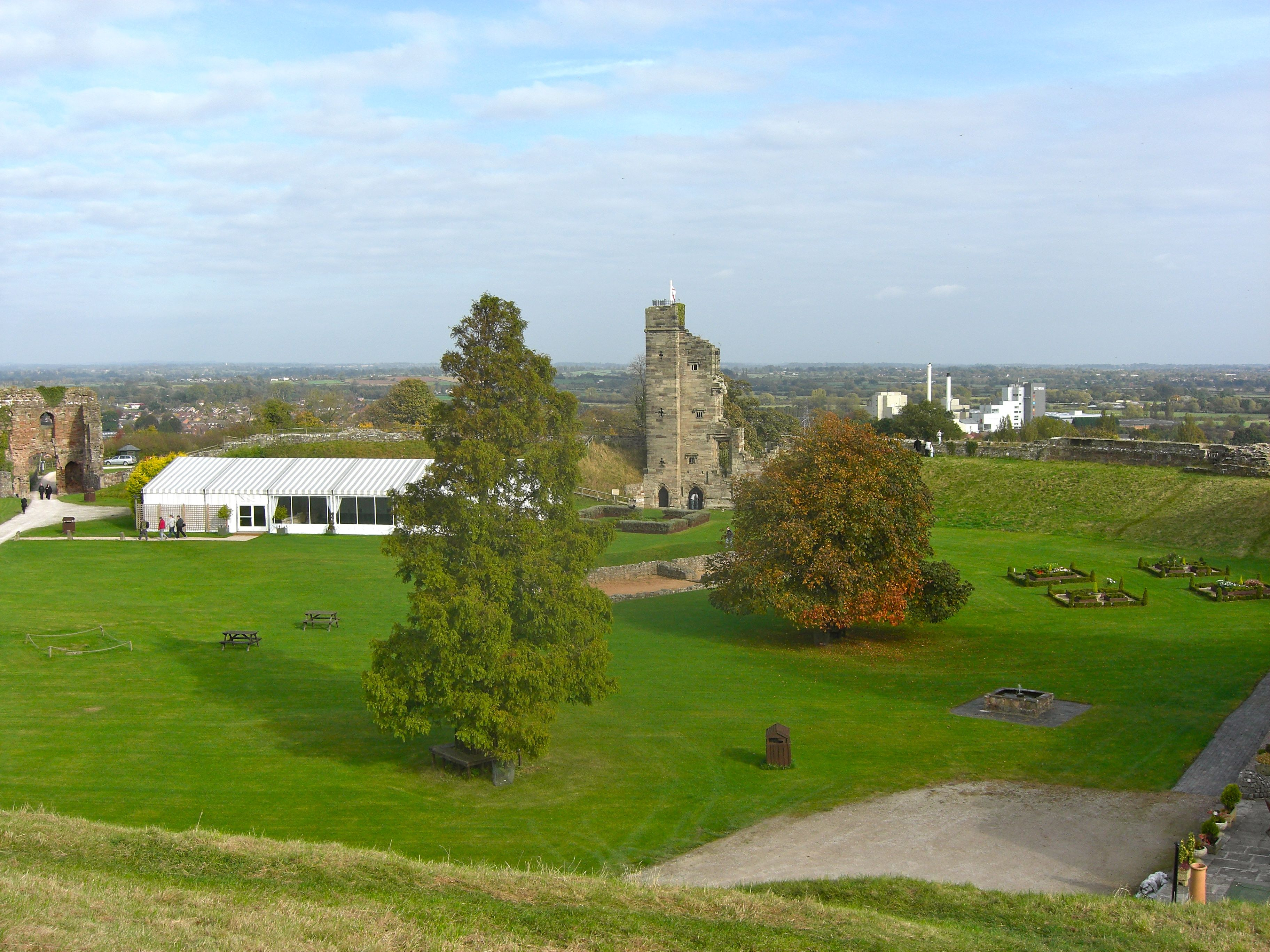 Tutbury Castle, view across the Chapel to the North Tower and Entrance Tower.